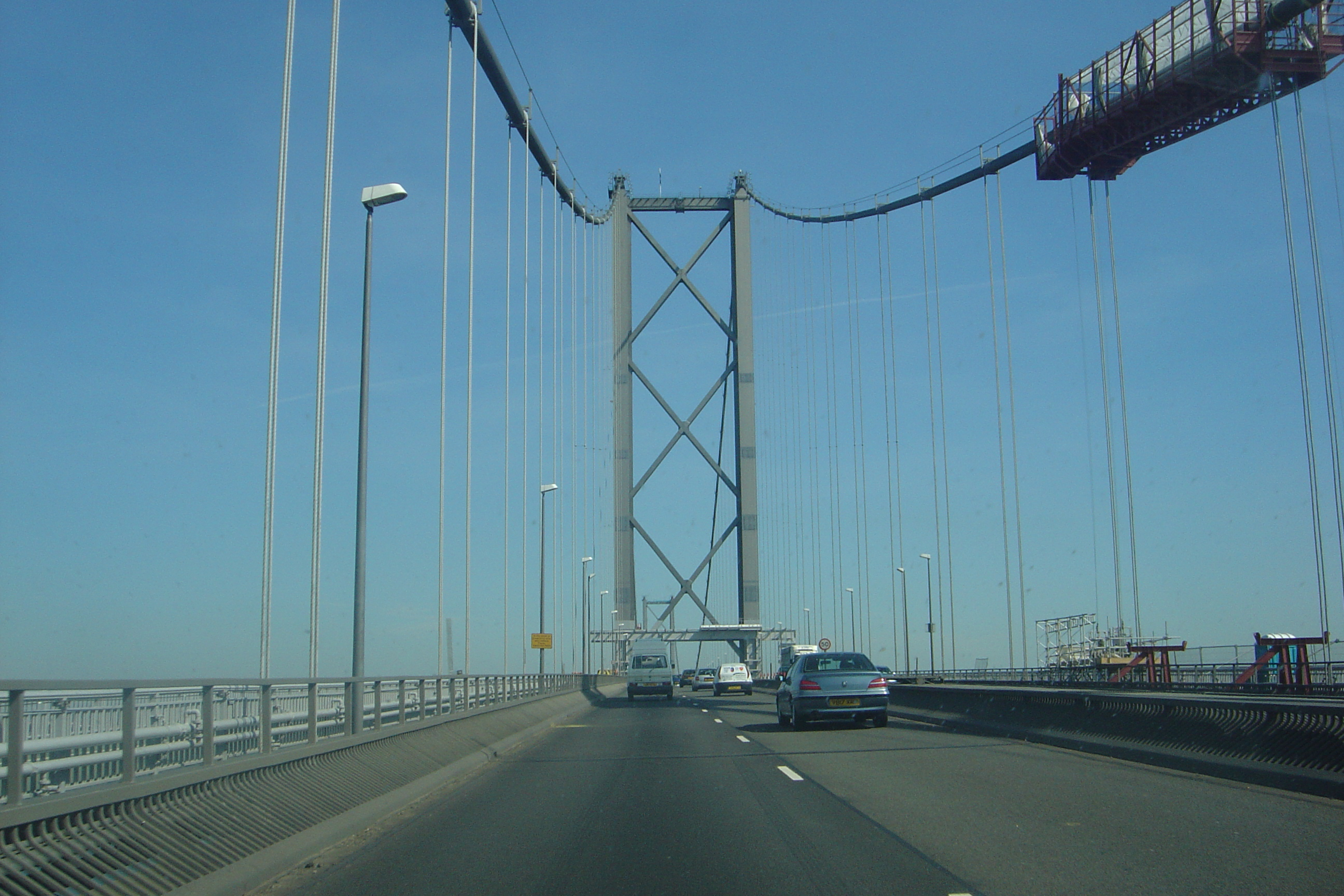 Forth Road Bridge, northwest of Edinburgh, over the Firth of Forth July 12, 2005